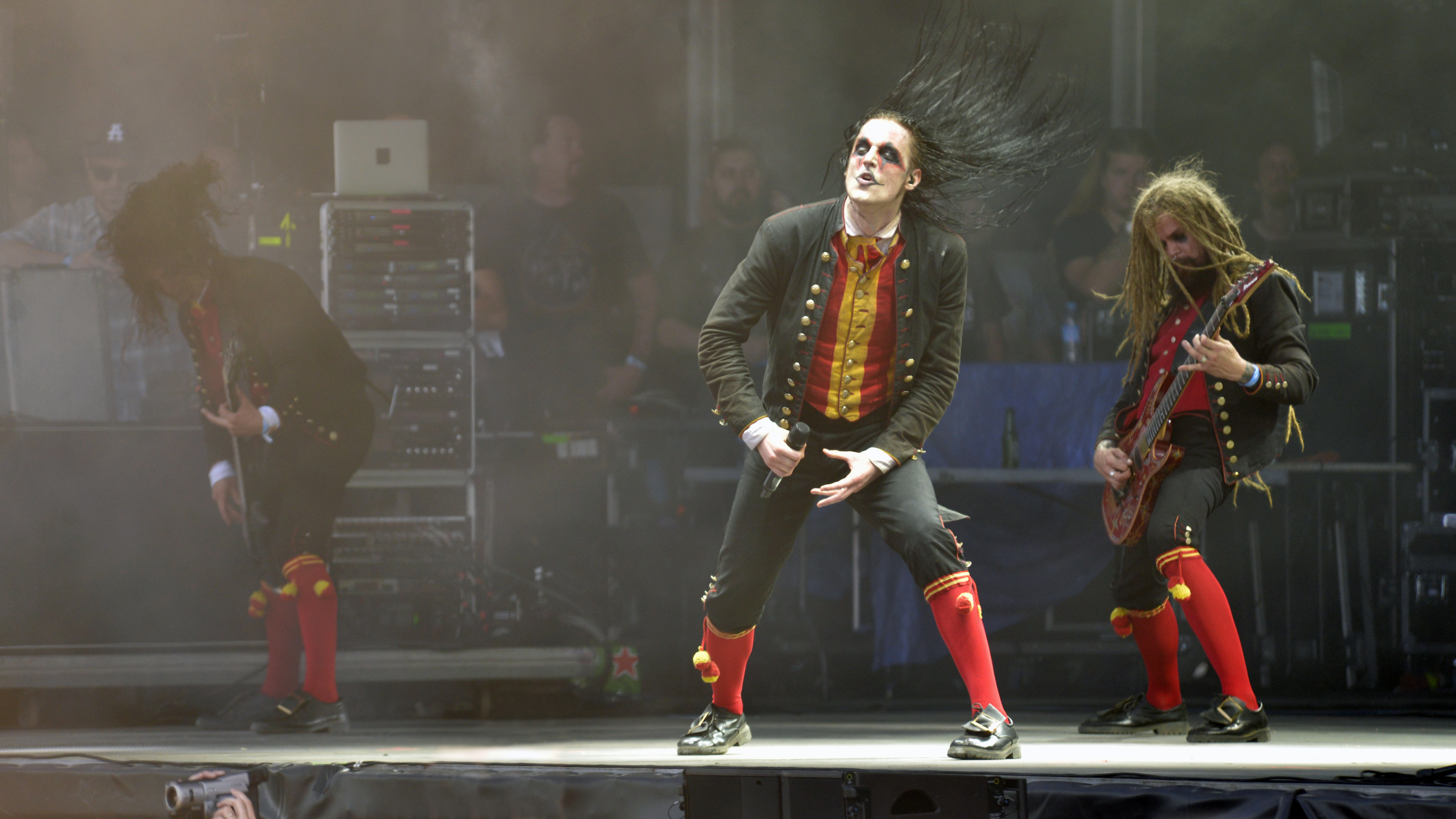 Avatar show at 2017 Hellfest, France.